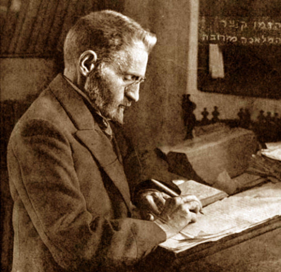 Elyezer Ben Yehuda